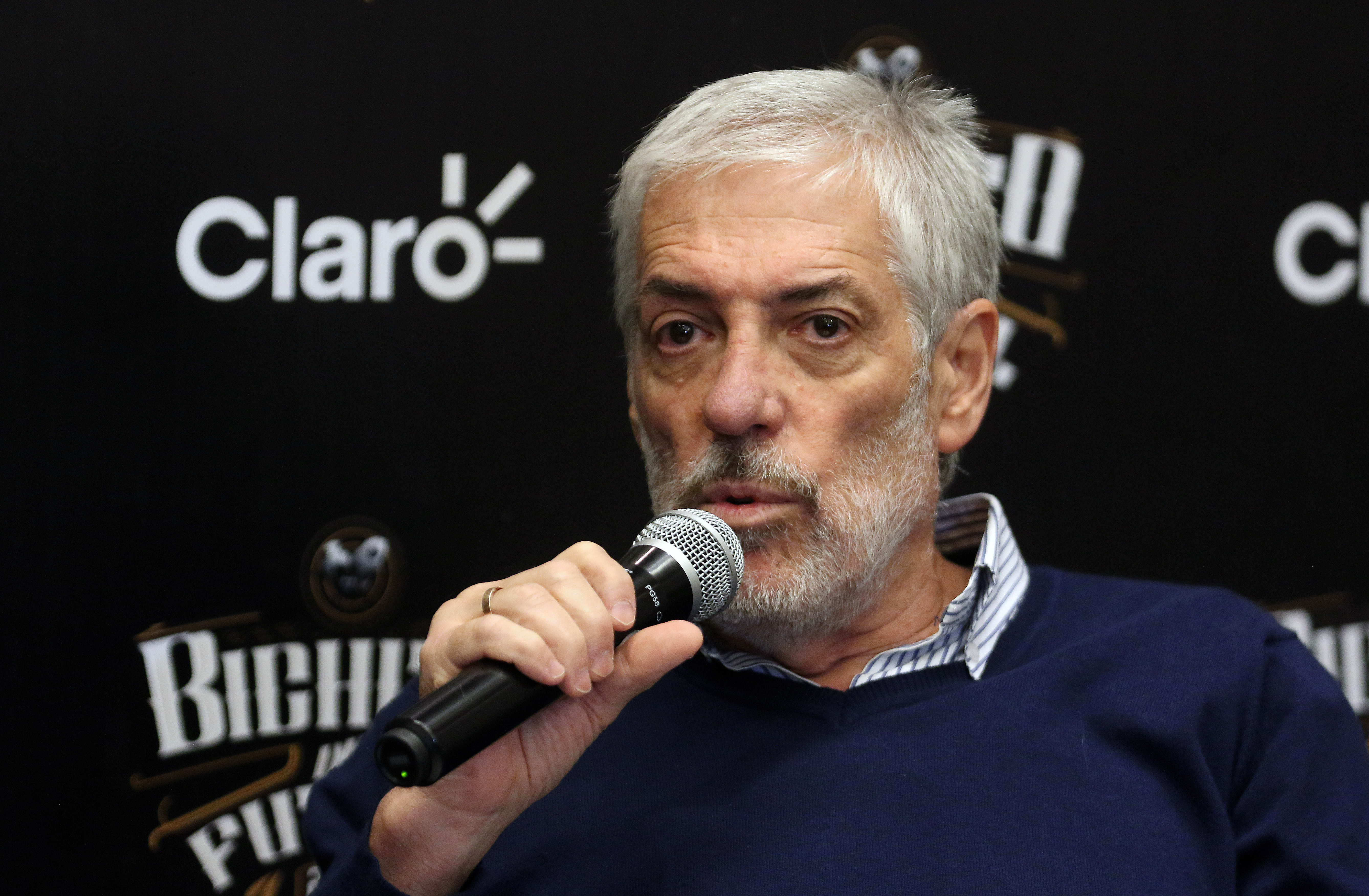 Jorge Barraza on a chat with Hernan Dario Gomez in Quito, Ecuador on 19 February, 2018. Picture by ANDES/Micaela Ayala V.